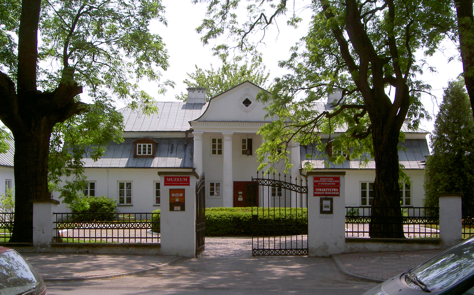 Hrubieszów, Poland • Dworek Du Chateau / Du Chateau Mansion